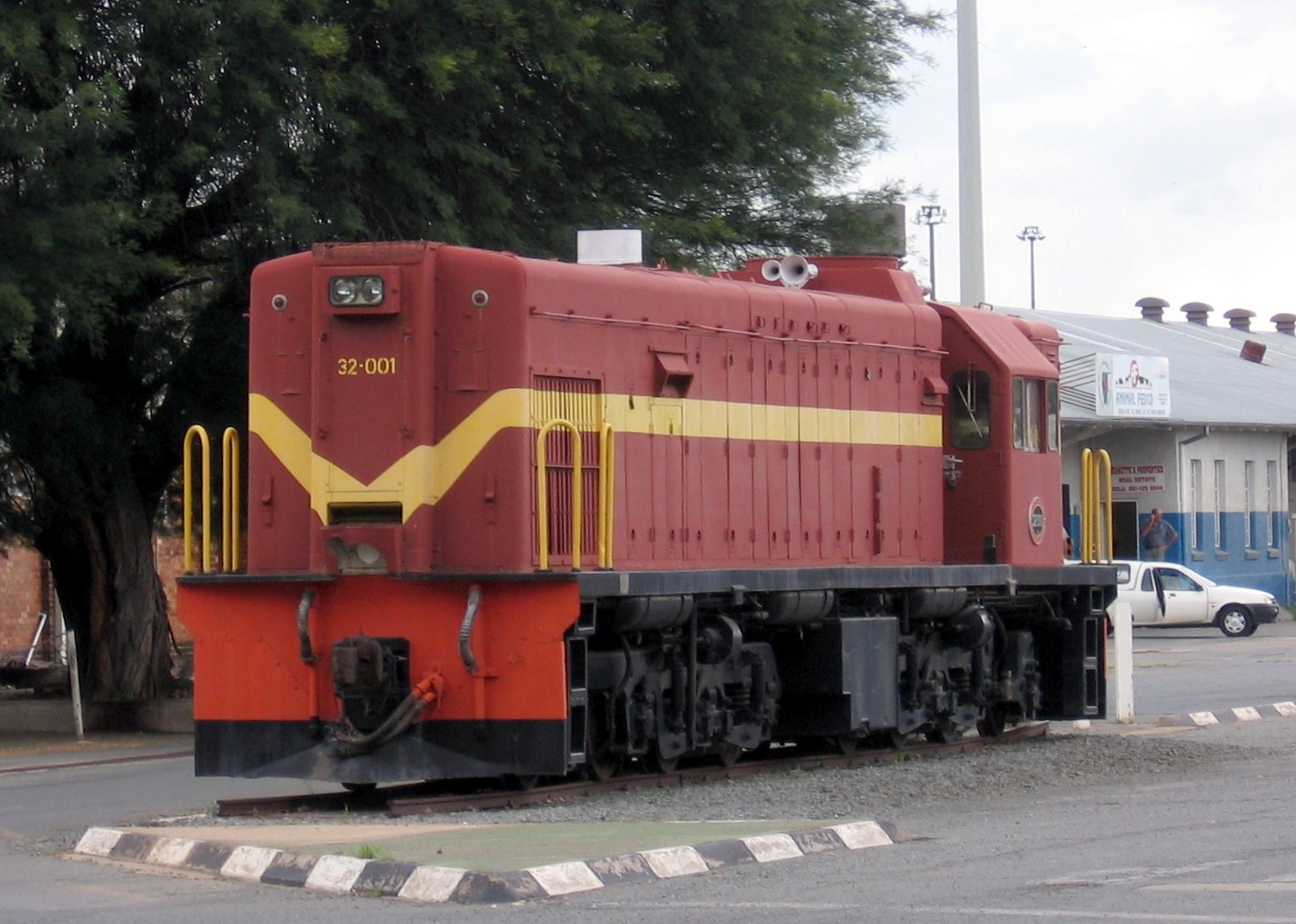 Diesel locomotive 32-001 Windhoek, Namibia